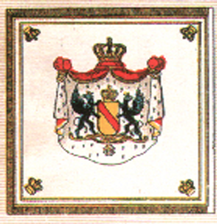 Colors of the army of Baden